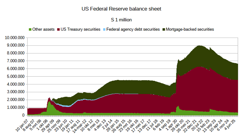 Development of the balance sheet of the US Federal Reserve since January 2007, showing amounts of agency bonds and mortgage backed securities apart. Data obtained from the website of the Federal Reserve, statistical release H.4.1. To be updated regularly; theoretically, this could be updated weekly, but I don't think I'll manage to do it that often.